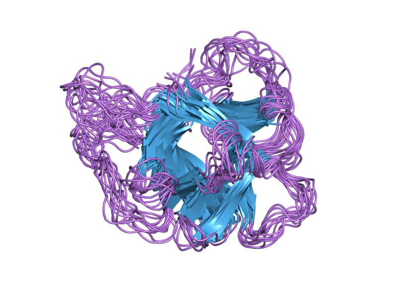 Cartoon representation of the molecular structure of protein registered with 1irp code.